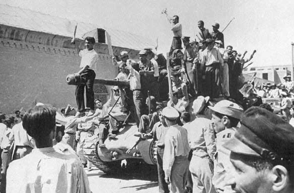 Tanks in the streets of Tehran, 1953